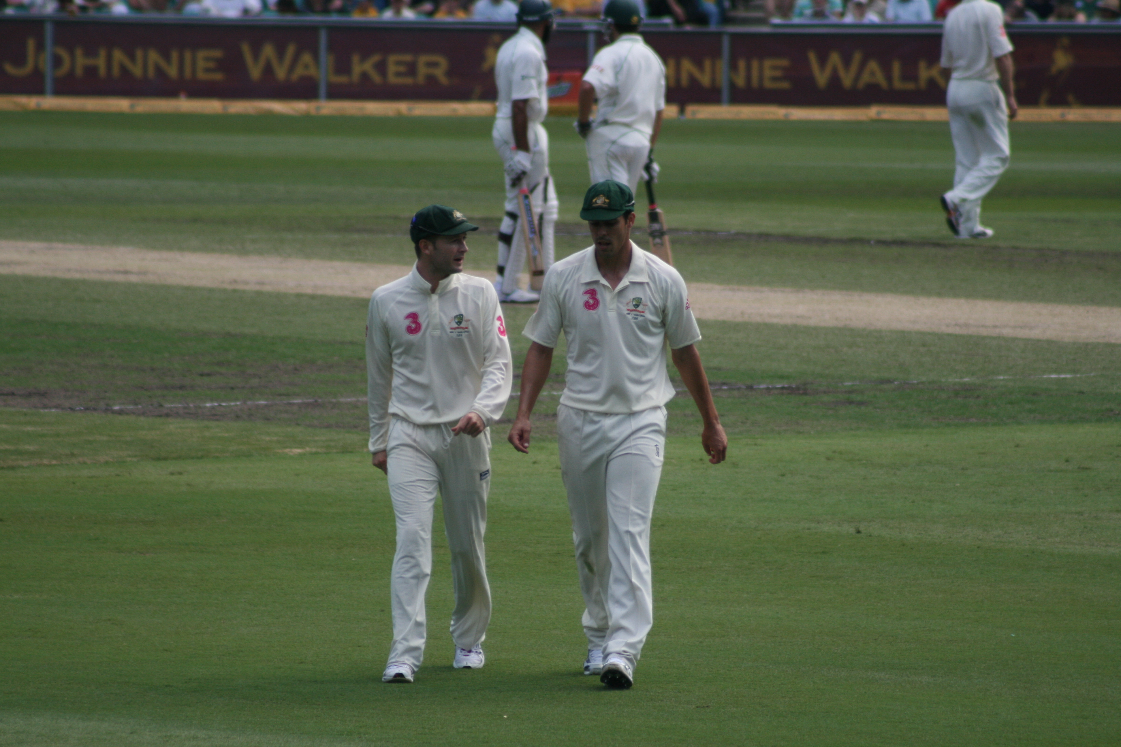 A cricket shot from Privatemusings, taken at the third day of the SCG Test between Australia and South Africa.